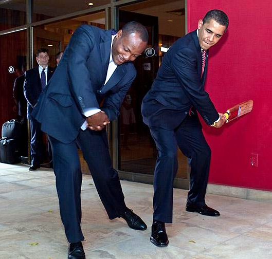 World-famous cricket legend Brian Lara shows President Barack Obama how to properly swing a bat on April 19, 2009.